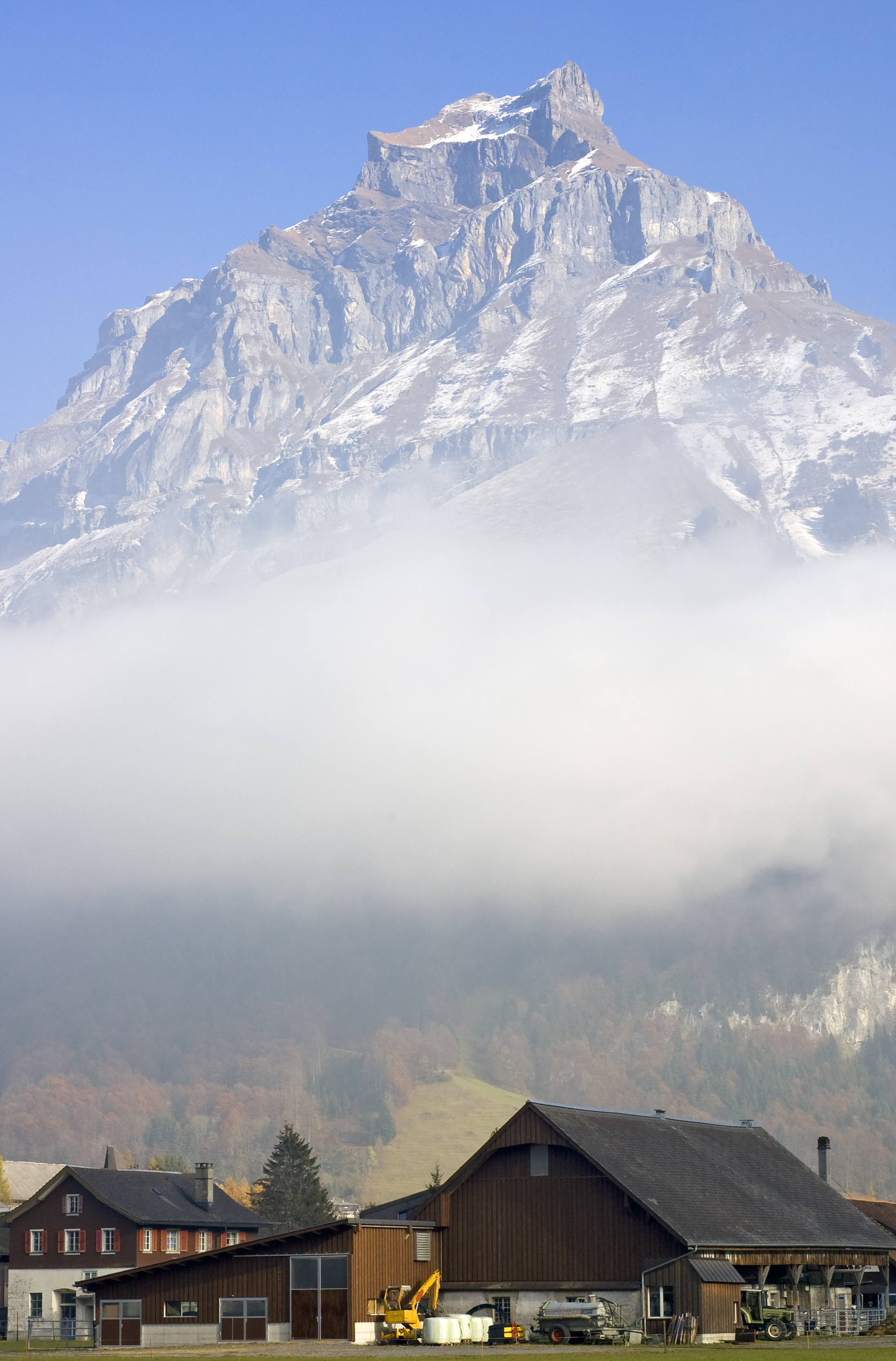 View from Engelberg OW, Switzerland, to the summit of Hahnen (8537ft)